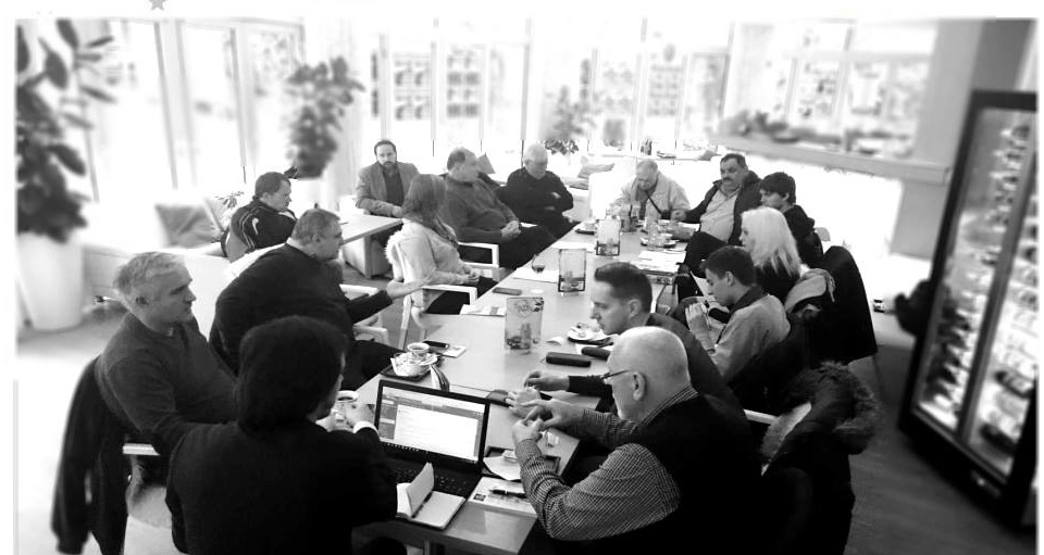 Community DAV DVA in Trnava